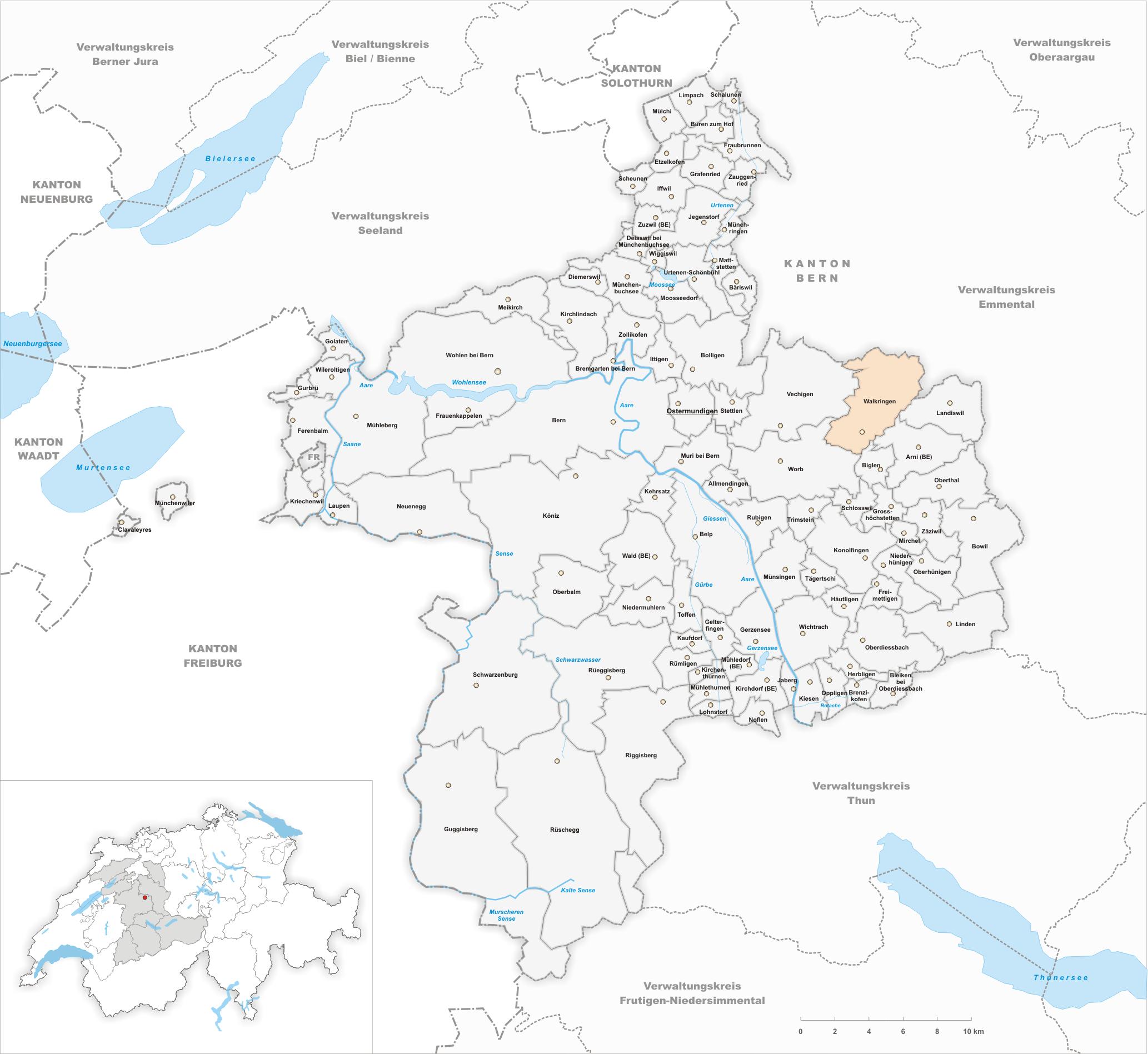 Municipality Walkringen